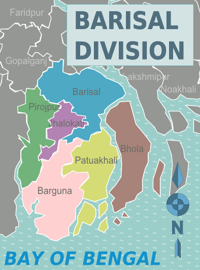 Colour-coded map of the districts of Barisal Division in Bangladesh (Wikivoyage regional scheme), English version